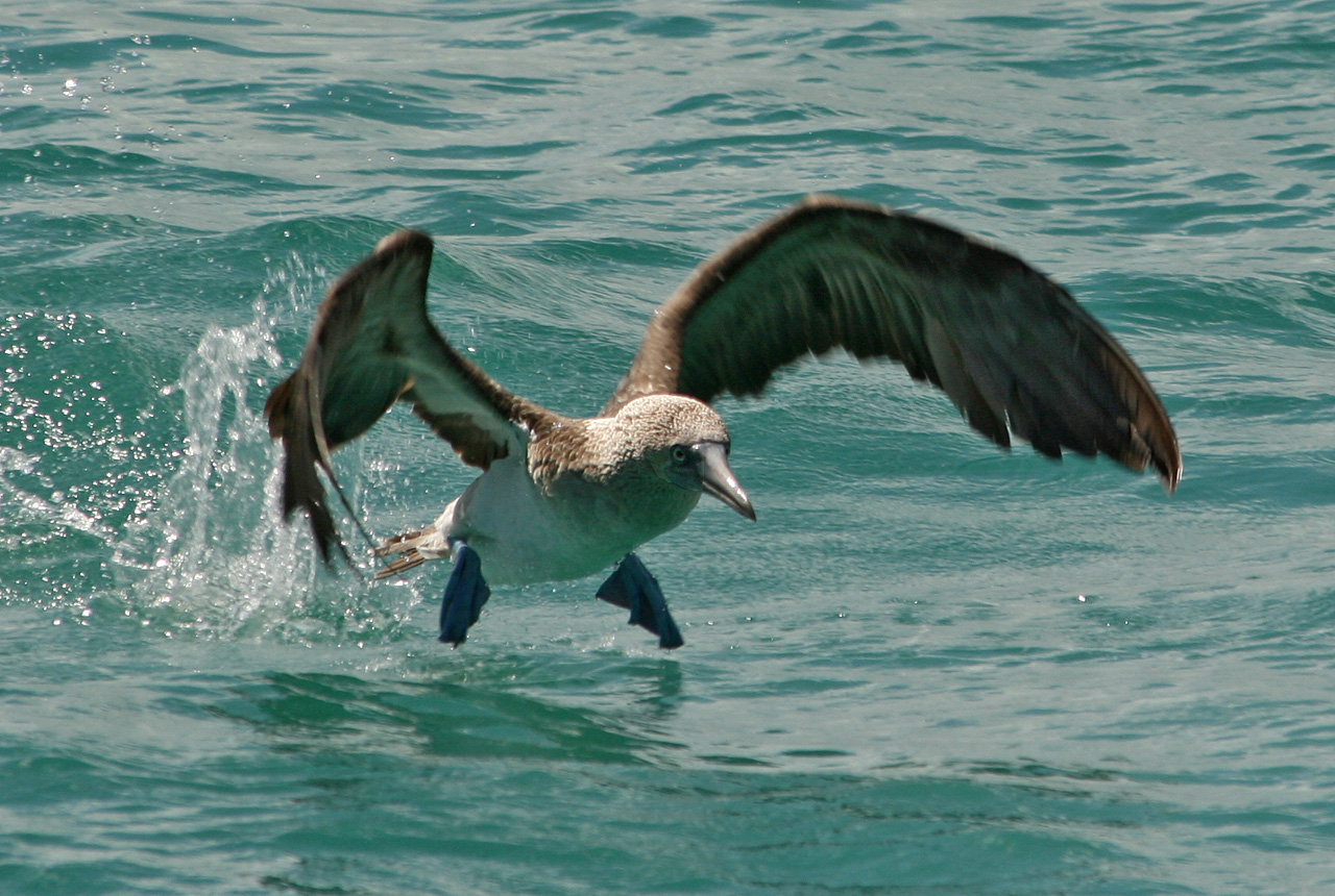 Blue-footed booby (Sula nebouxii) taking off after diving. Photo taken in Galapagos, Ecuador.